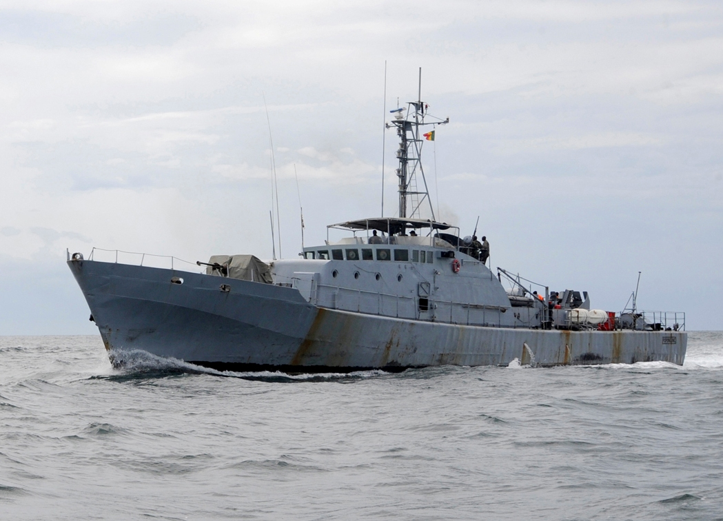 The Senegalese Navy vessel Poponquine during a military exercise with the U.S. Coast Guard.